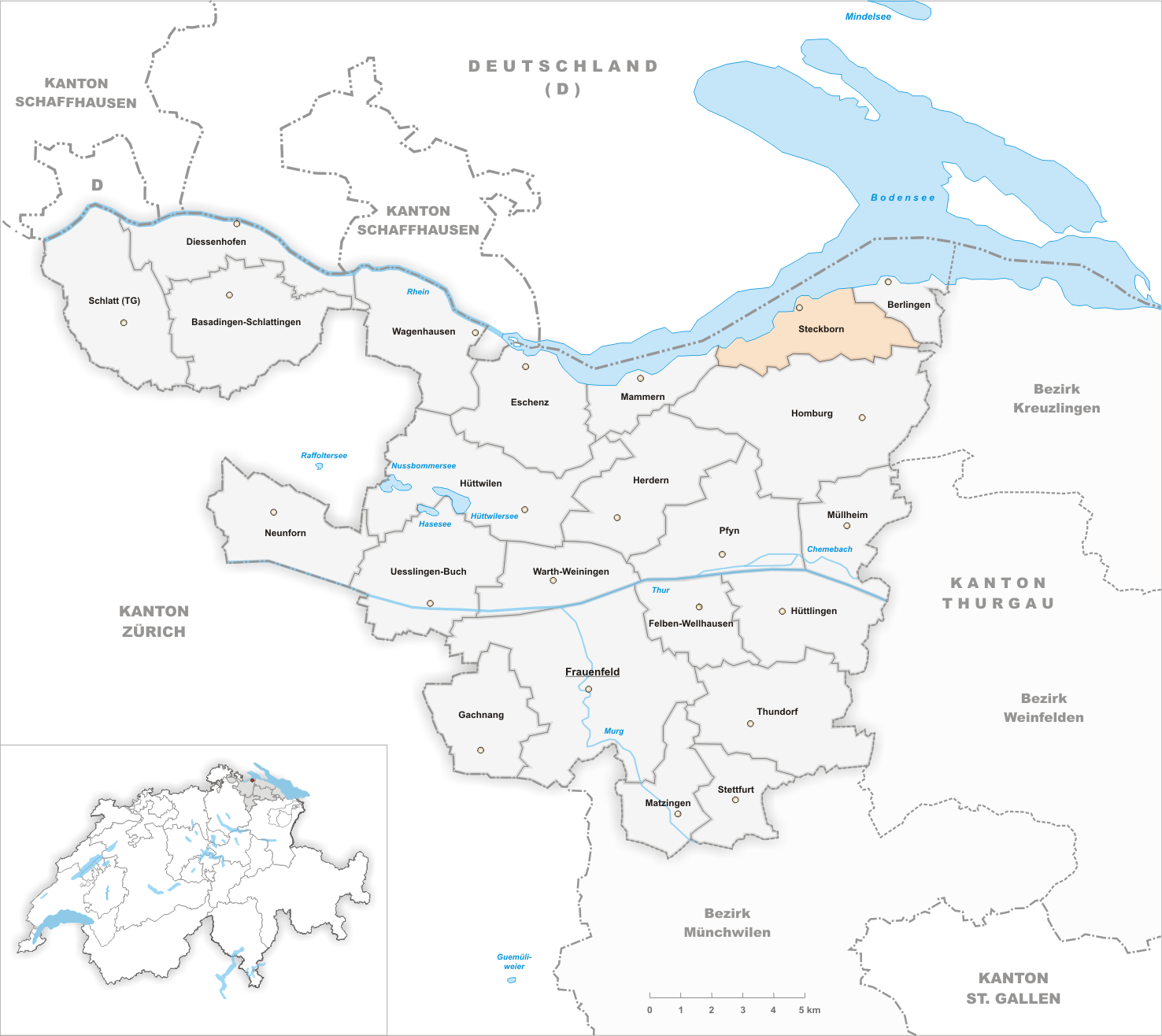 Municipality Steckborn